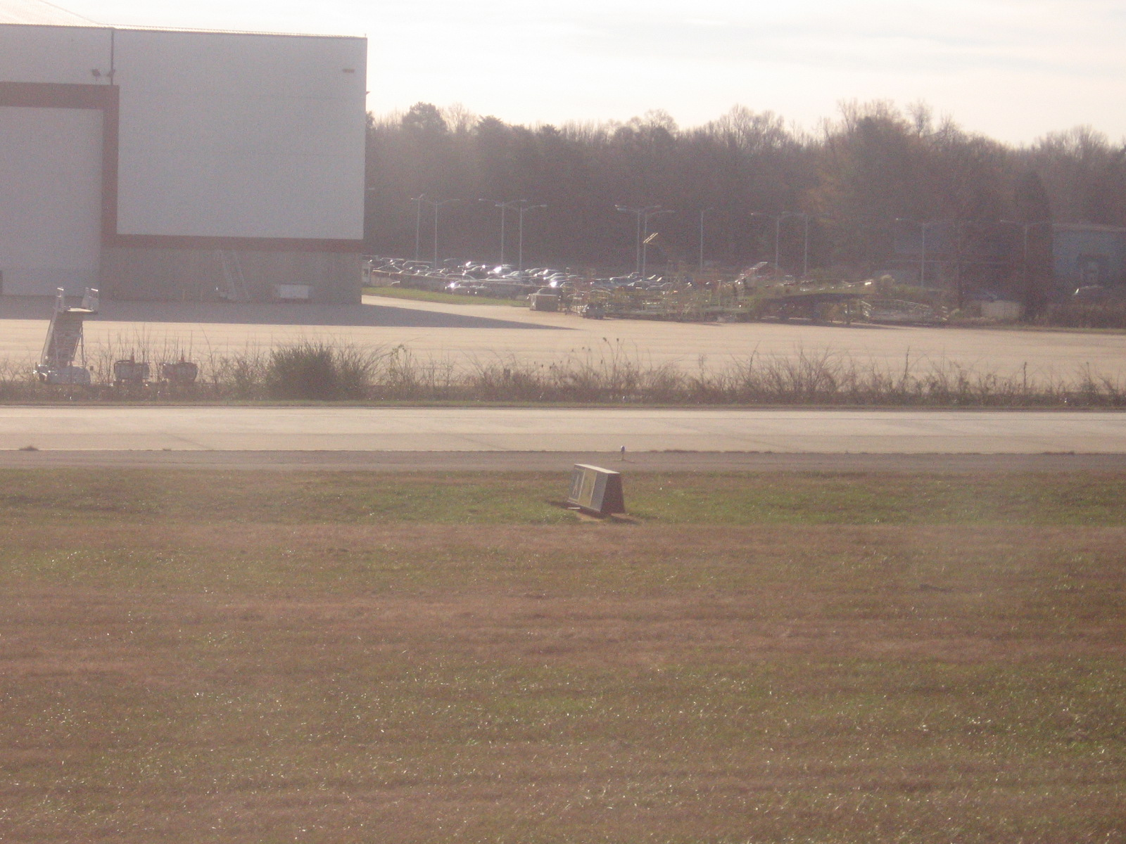 Closeup of northwest corner of US Airways hanger at Charlotte-Douglas International Airport viewed from Runway 5; site of crash of Air Midwest Flight 5481